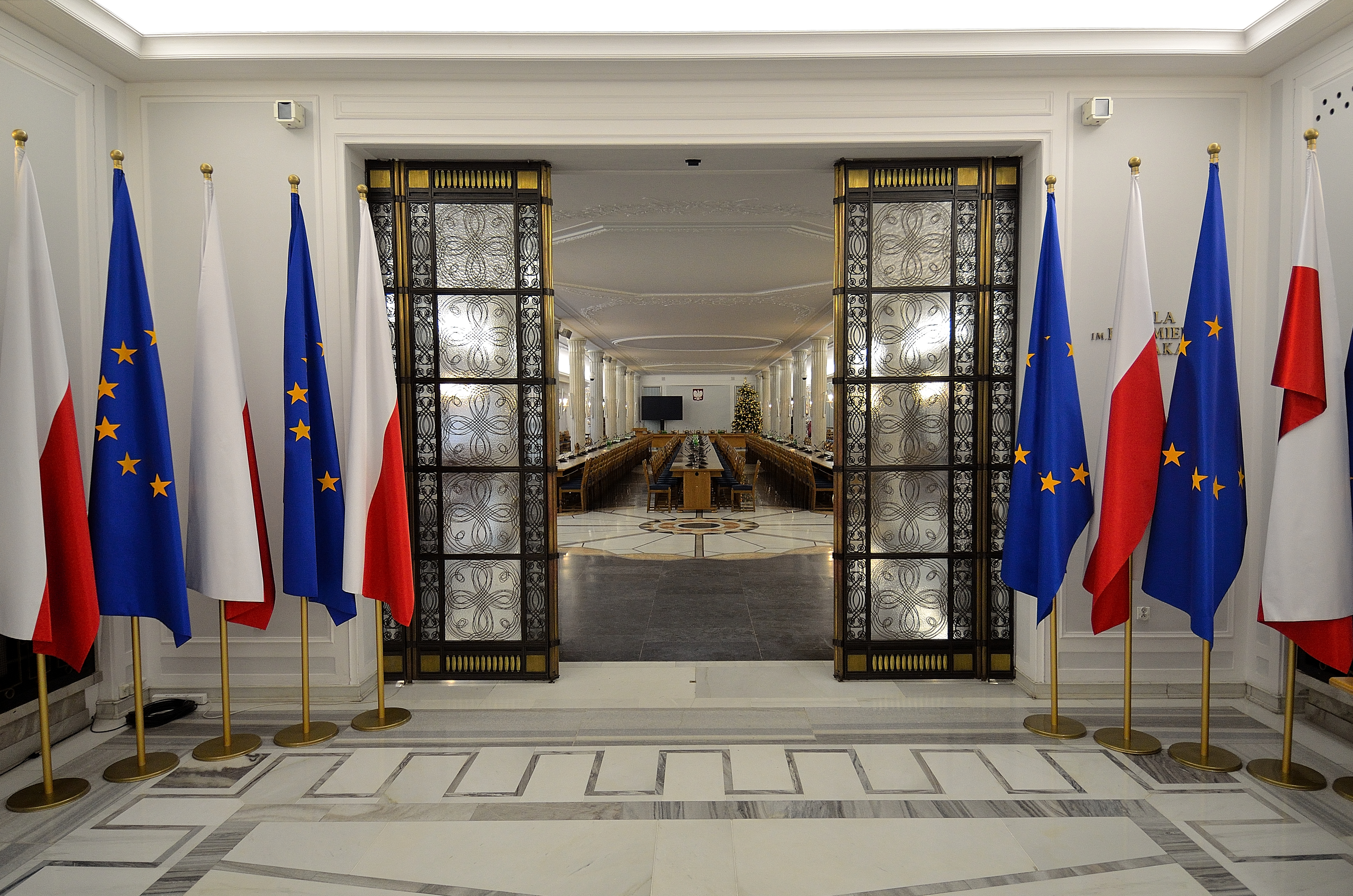 Entrance to the Column Hall in the Sejm